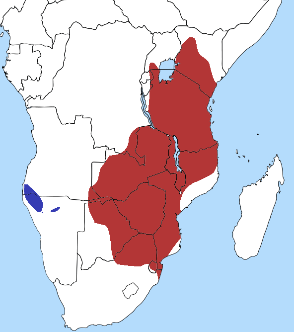 The Impala's distribution. Red= A. m. melampus Blue= A. m. petersi For range information see also IUCN's map and range description.